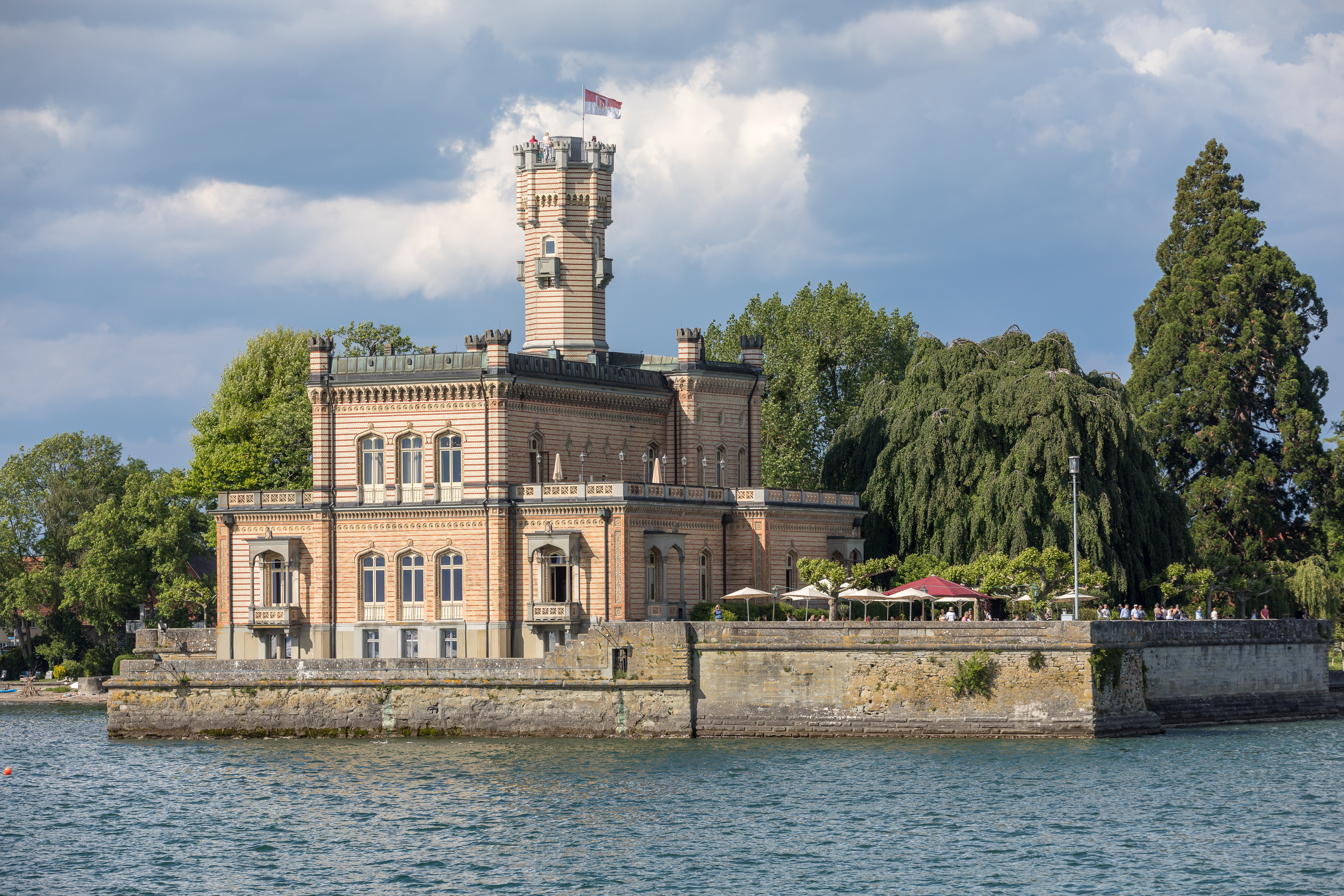 Montfort Castle at Lake Constance, Germany